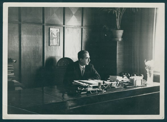 Bulgarian engineer and mayor of Sofia Ivan Ivanov (1891-1965)